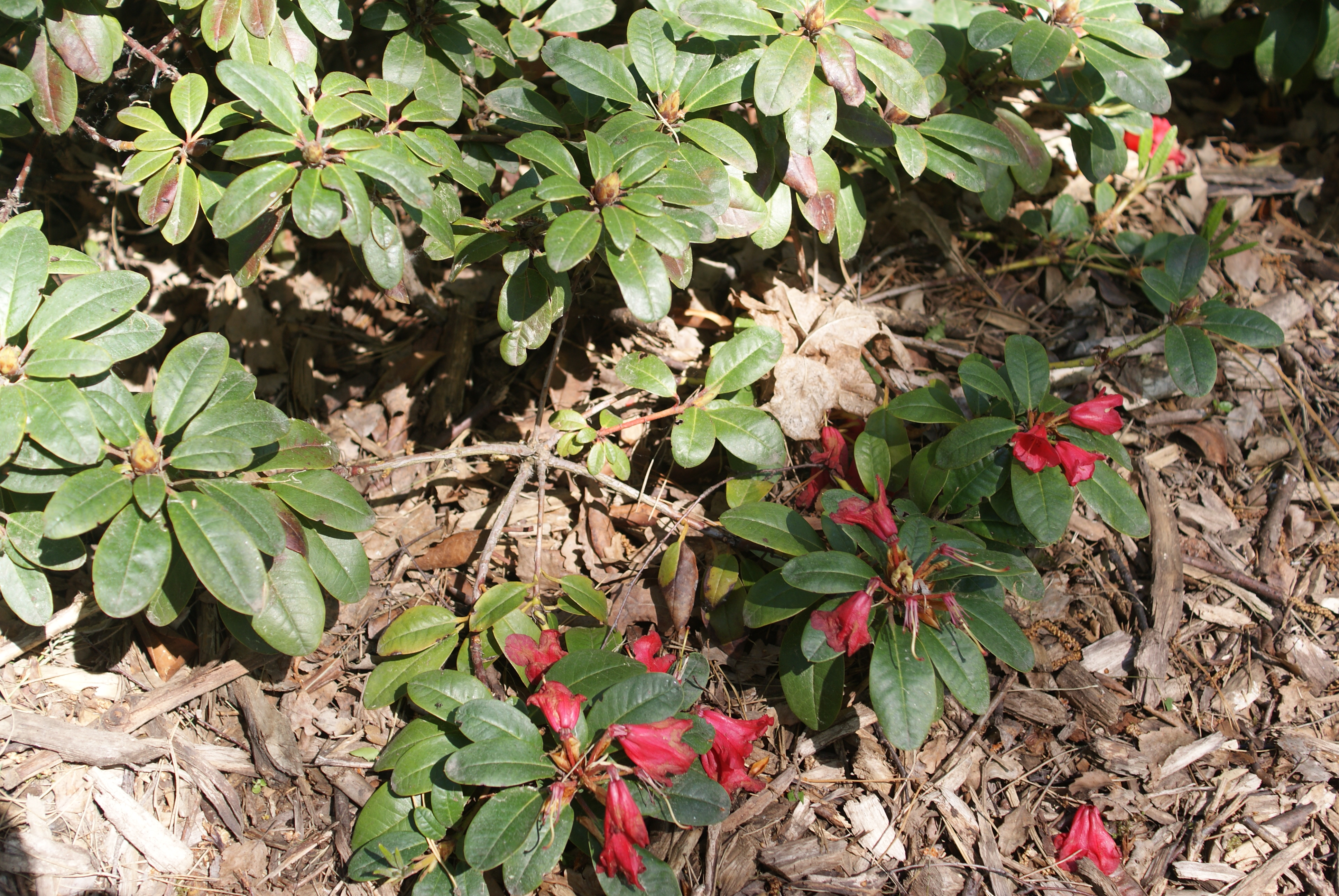 Rhododendron repens